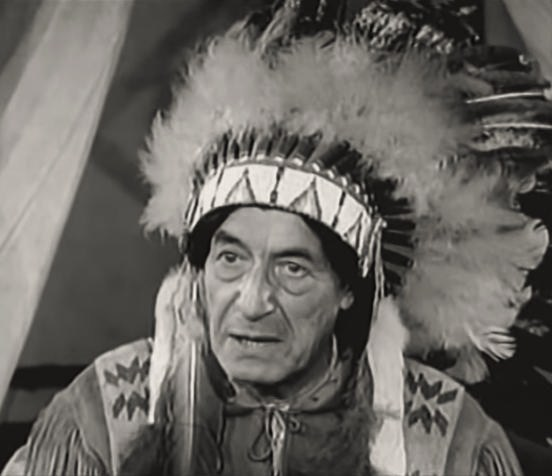 Ralph Moody in the TV-series The Lone Ranger, episode The Renegades (cropped screenshot)